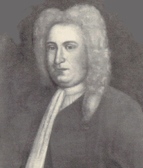 via Info Portrait of acting provincial governor of New York, Rip Van Dam made around 1720.